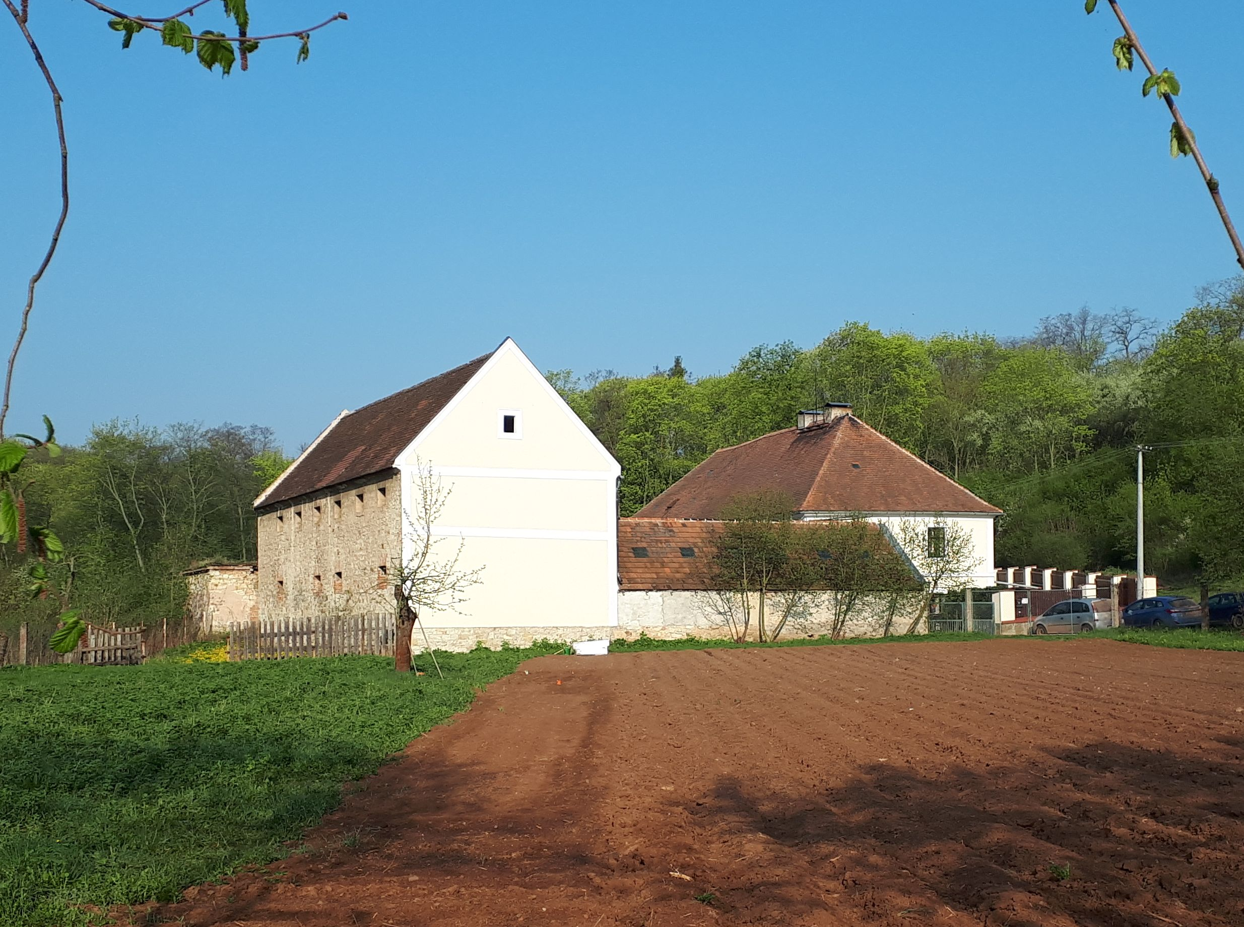 Former New mill in Holedeč No 63